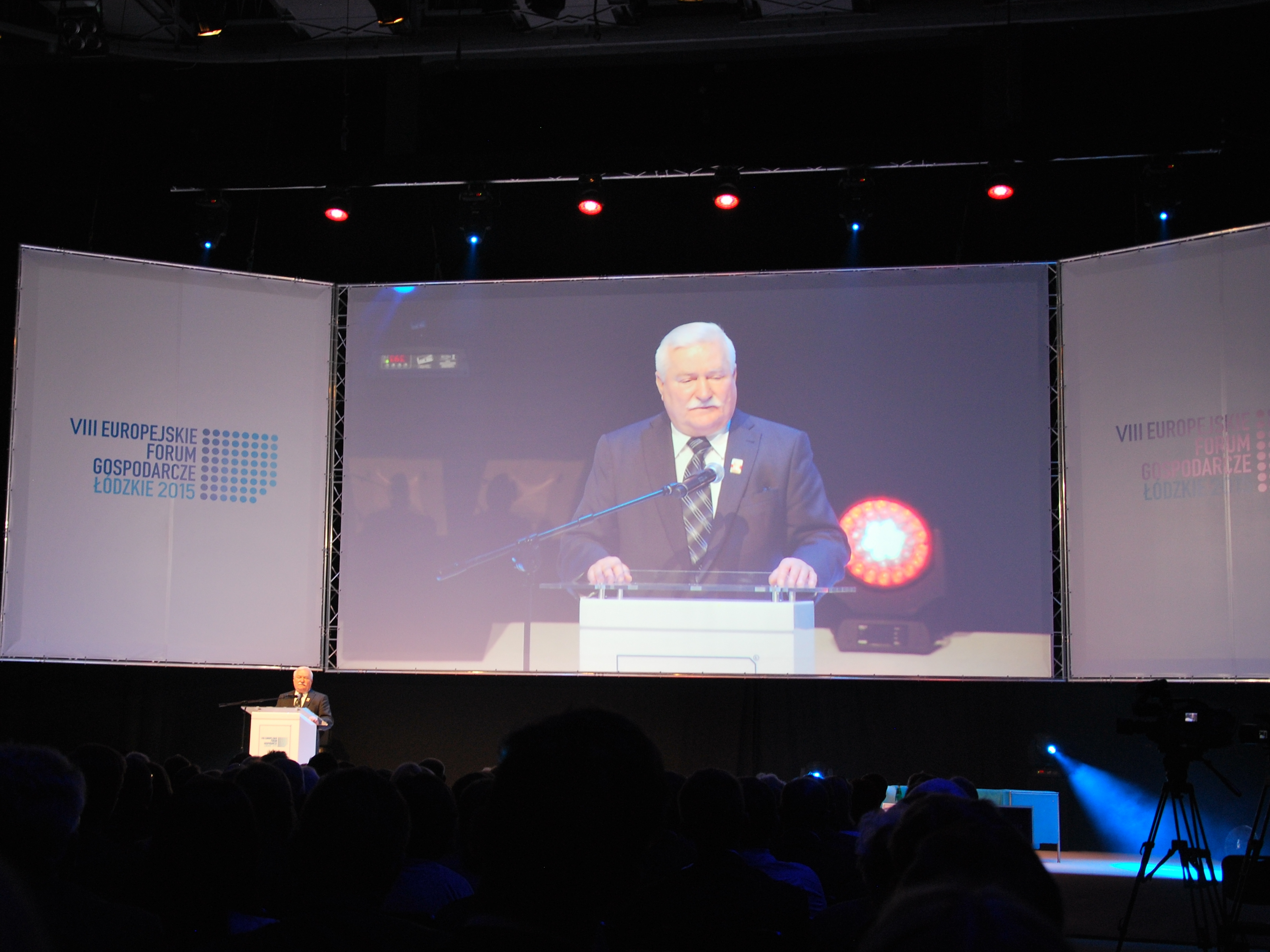 Lech Wałęsa, Łódź VIII European Economic Forum, October 2015